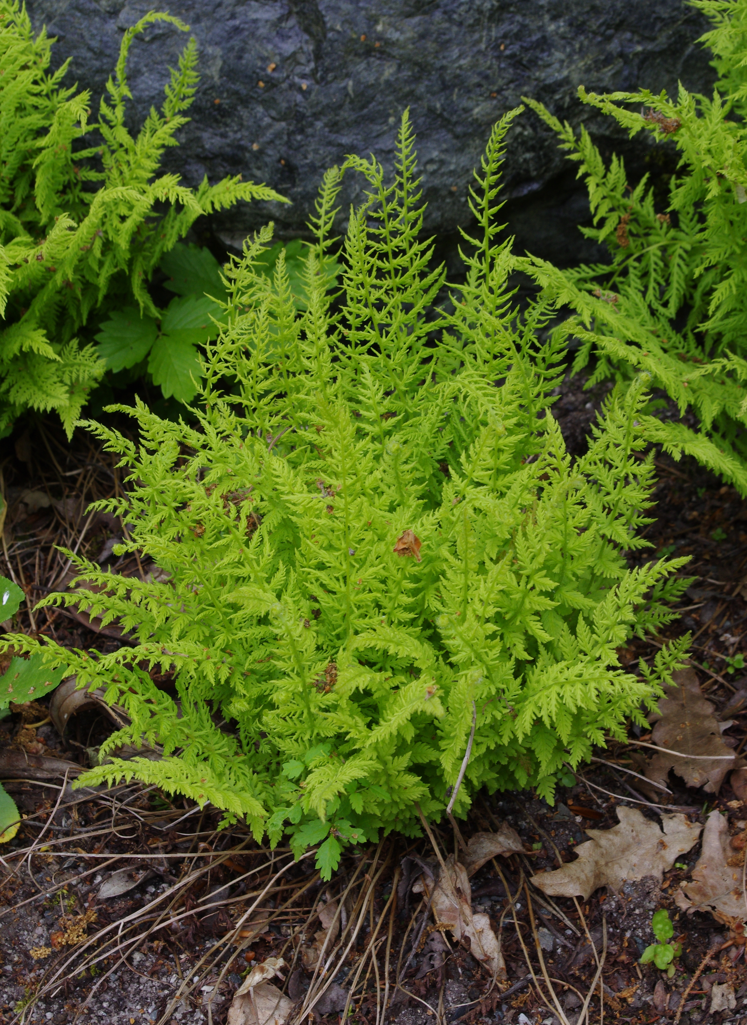 Woodsia fragilis at the ÖBG Bayreuth